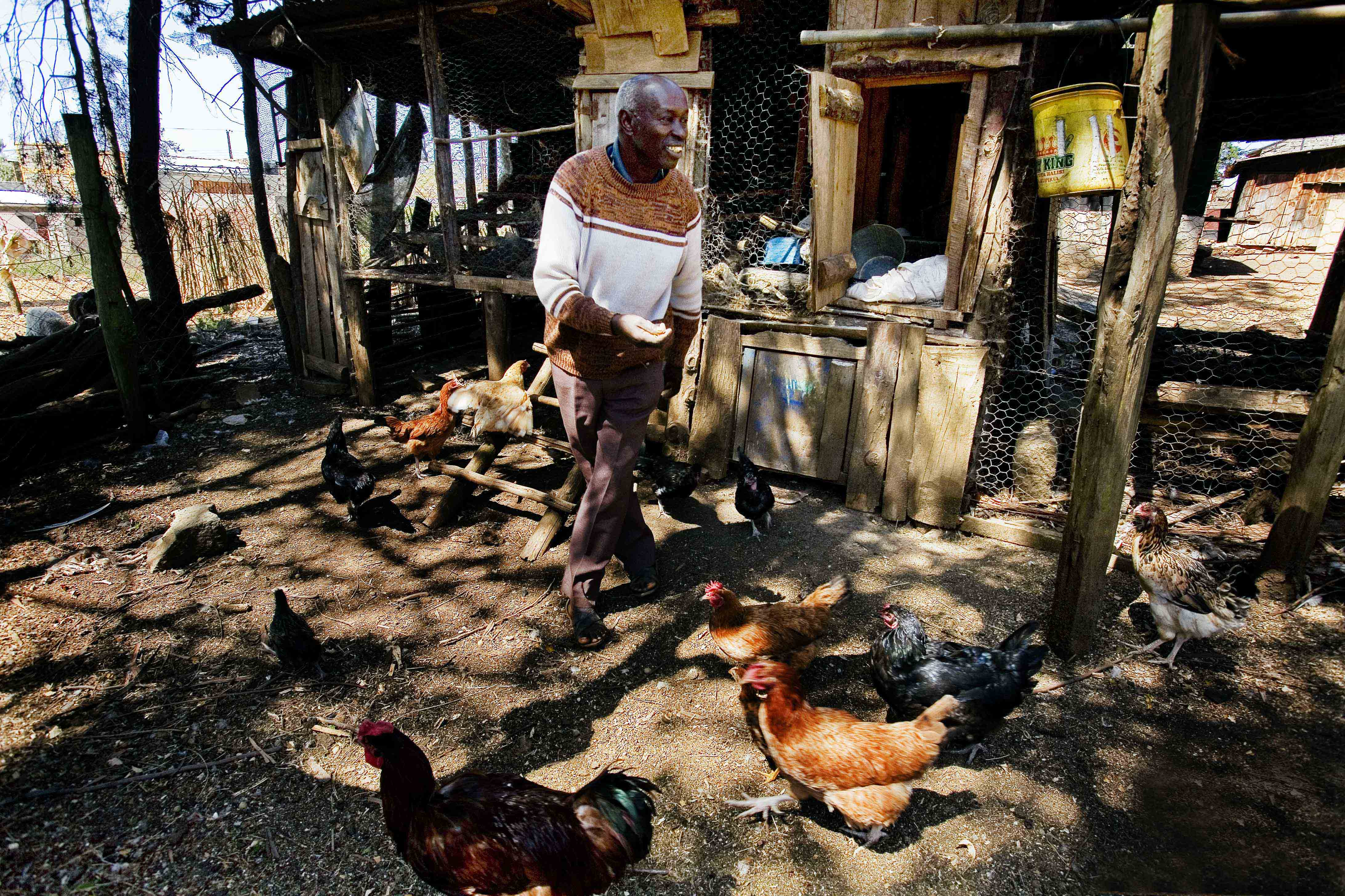 Francis Kimani Kibogi feeds his hens on his farm near Gilgil, Kenya, on 16 March, 2009. Francis is part of the Self Help Development Initiative that is supported by AusAID that teaches farmers how to make their land more productive through protecting their environment and providing sutainable solutions to combatting environmental problems. Kenya 2009.